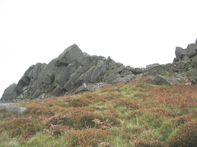 The main gate to the Creigiau Gwineu Hillfort. A natural gully in the crags provided an entrance to the late Iron Age fort on Mynydd y Graig. 617422 617424